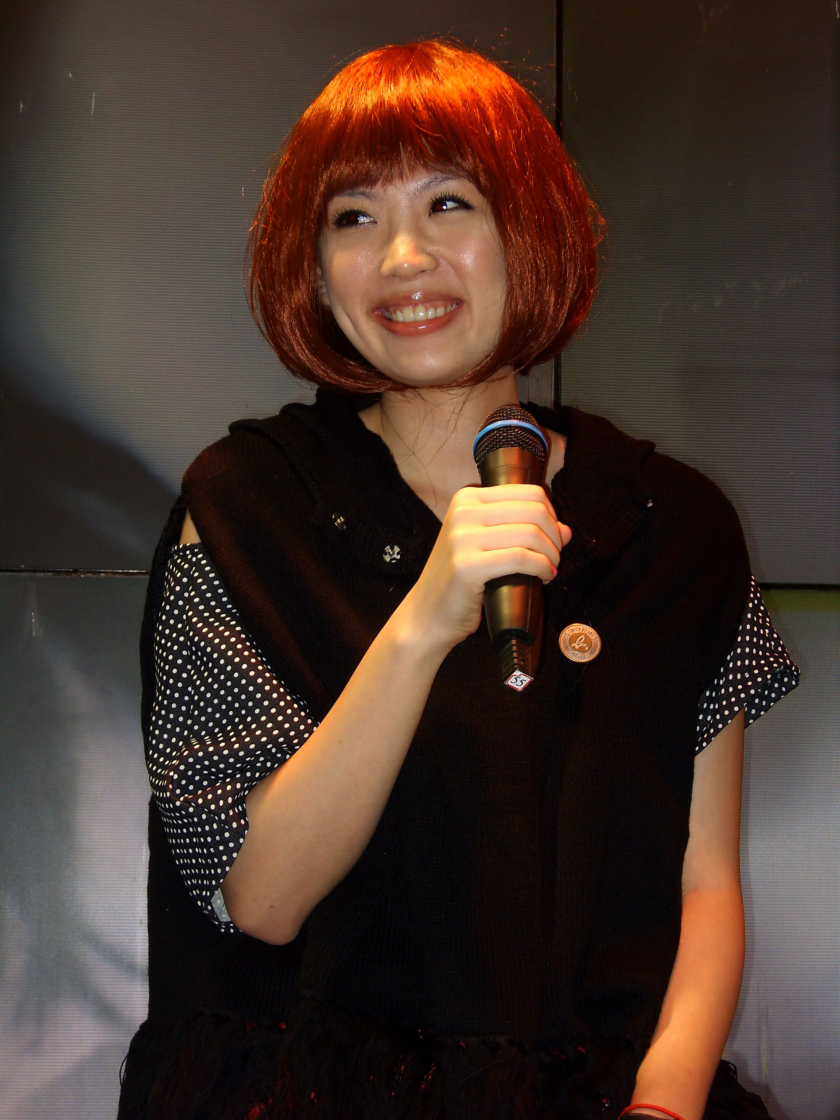 2007 Taipei IT Month: Waa Wei at Ministry of Economic Affairs activity.